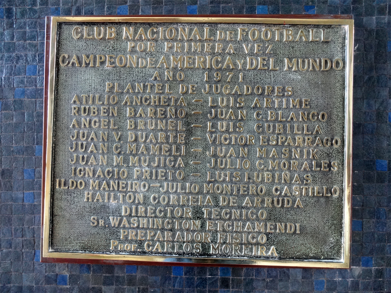 Club Nacional de Football squard in 1971 Libertadores Cup.